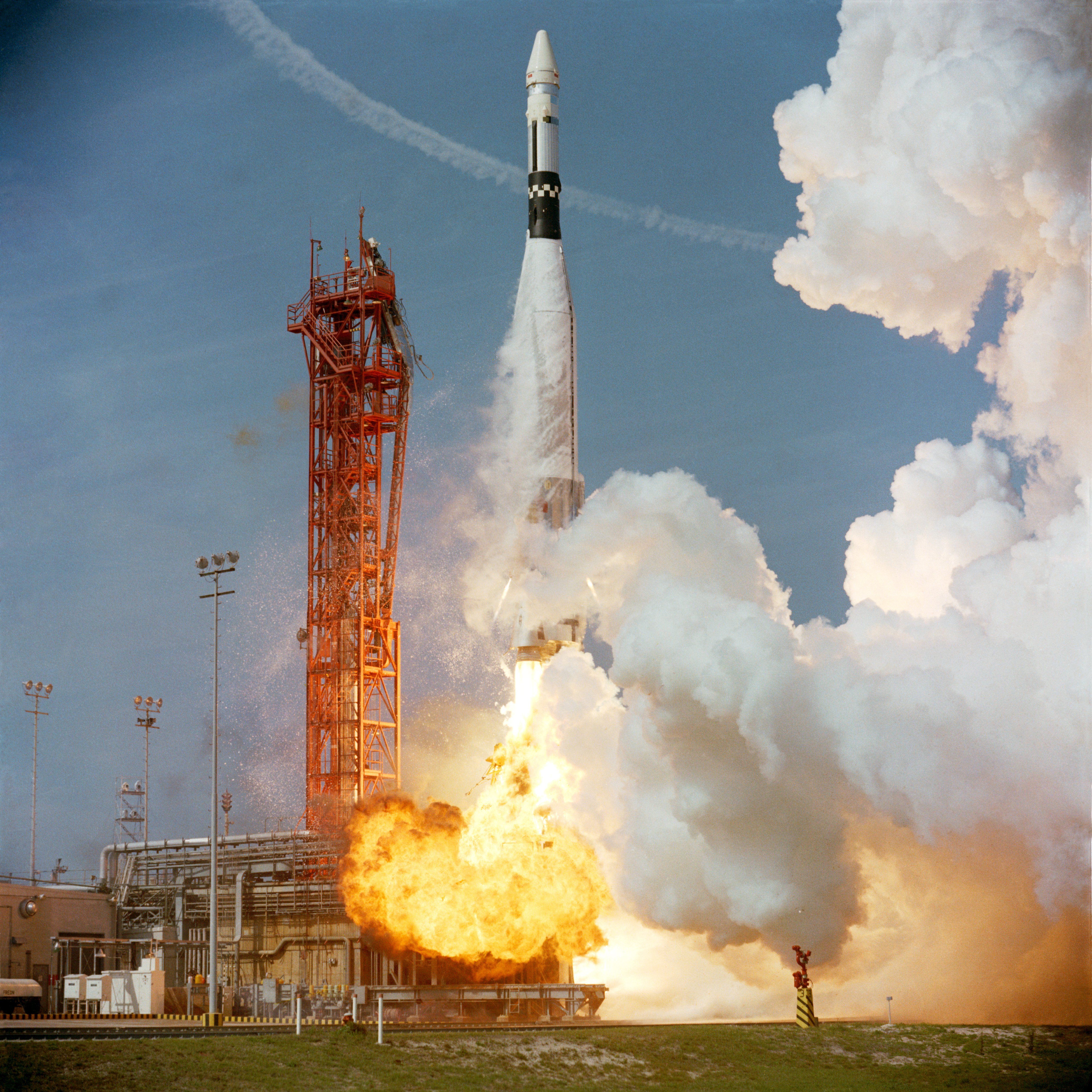 On March 16, 1966, an Atlas booster launched an Agena Target Vehicle for the Gemini 8 mission. The flight crew for the 3 day mission, astronauts Neil A. Armstrong and David R. Scott, achieved the first rendezvous and docking to Atlas/Agena in Earth orbit.